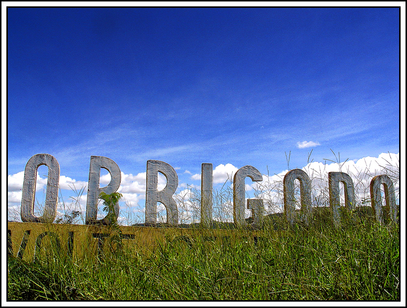 "Obrigado" (portuguese, "thank you" in english), located at Cordisburgo, Brazil, 19°7′39.11″S 44°19′20.06″W / 19.1275306°S 44.3222389°W